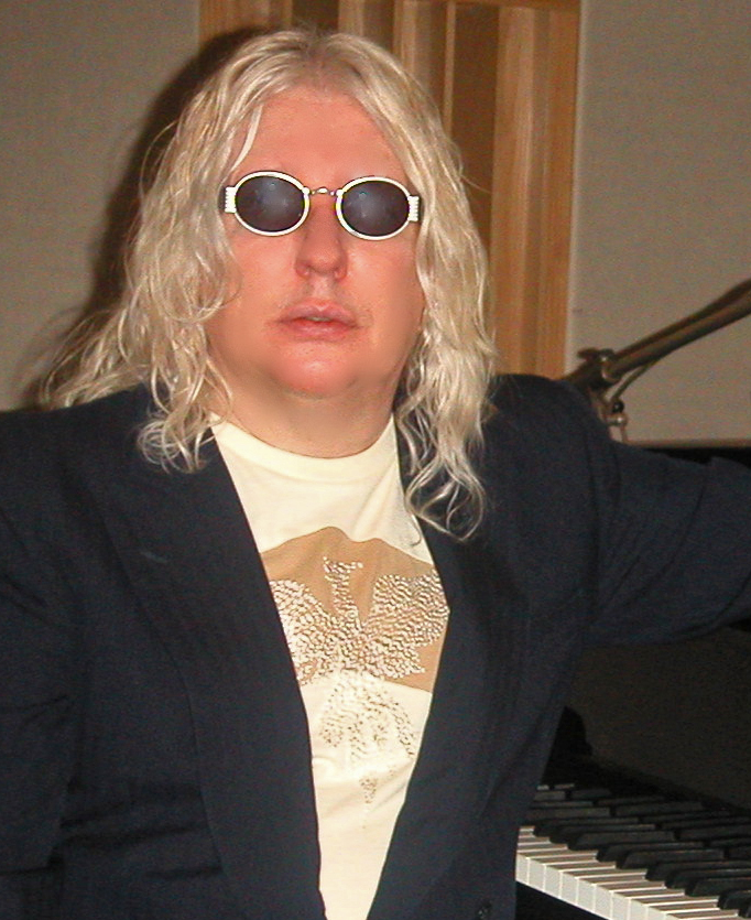 Roy Thomas Baker by Tere Baker crop 2